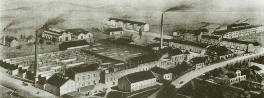 Factory area of jute spinning mill in Beuel Bonn (now district Bonn-Beuel-Ost). The factory was founded in 1868 as the "Vereinigte Jutespinnerei und Weberei AG" (="United jute spinning mill and weaving mill AG"). Today the site is owned by the City of Bonn and used by the Municipal Theatre (Opera and Acting).